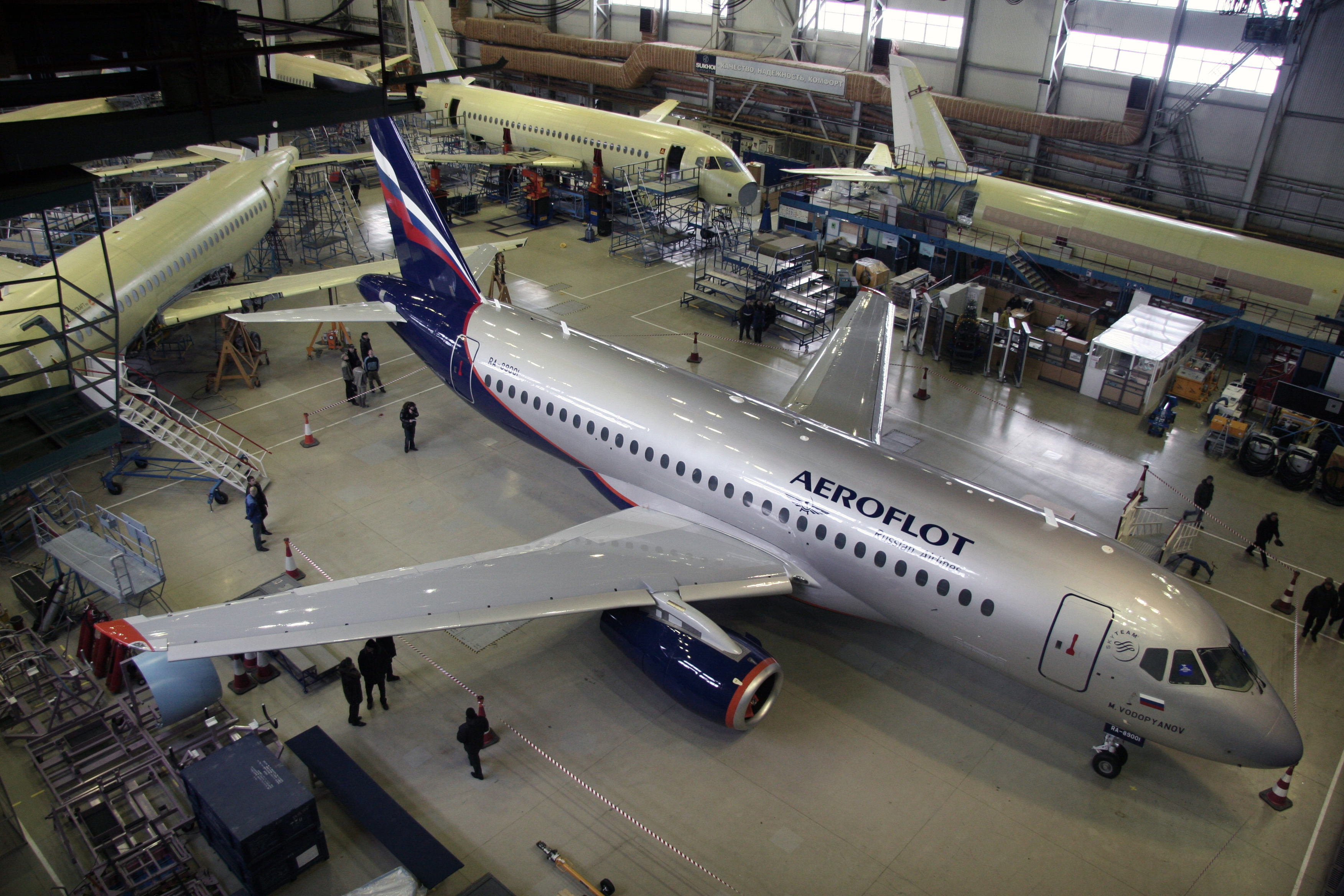 Aeroflot Sukhoi Superjet 100 (RA-89001) at Dzemgi Airport